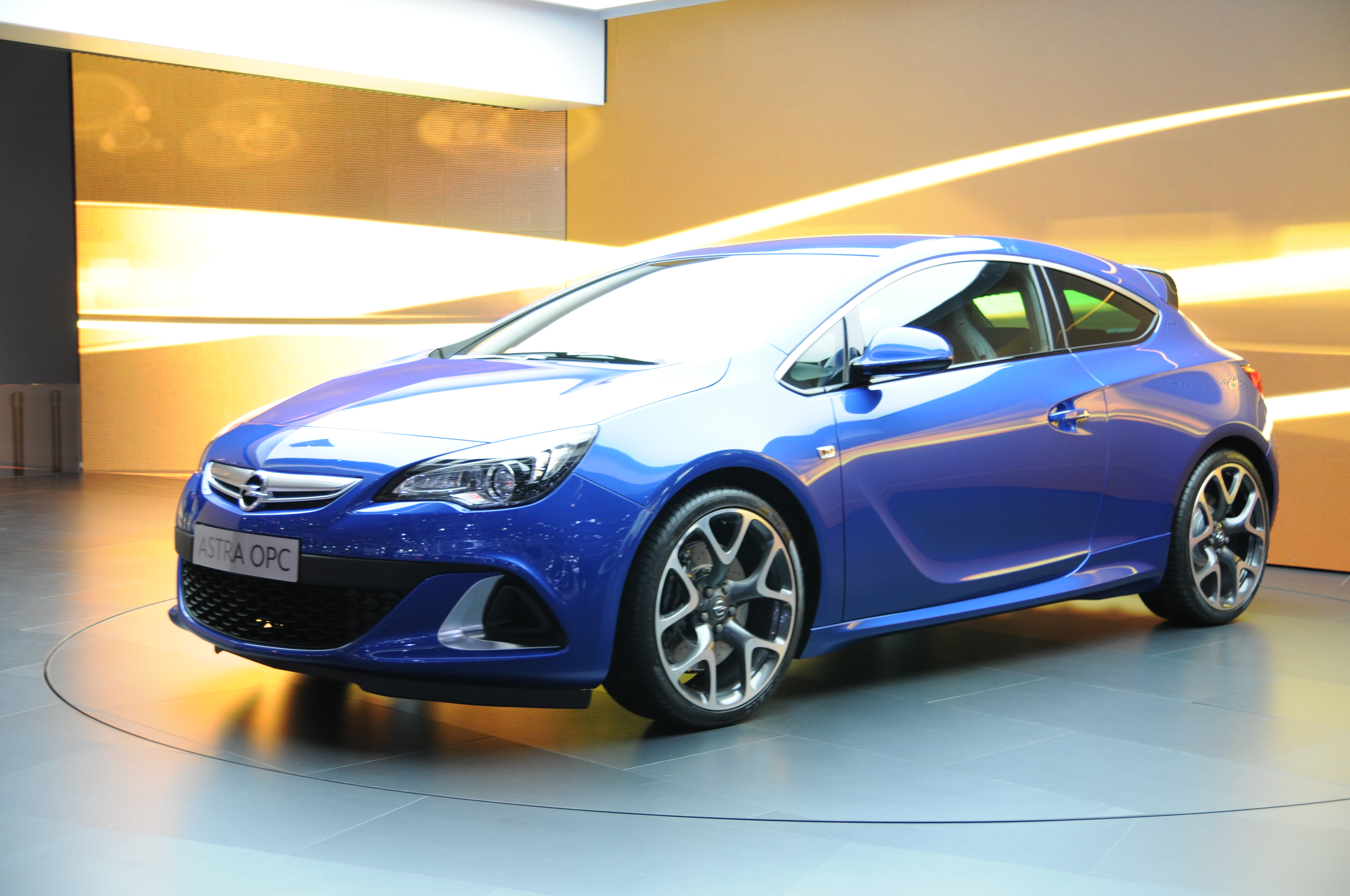 Geneva Motor Show 2012 (photos taken on the second press day)